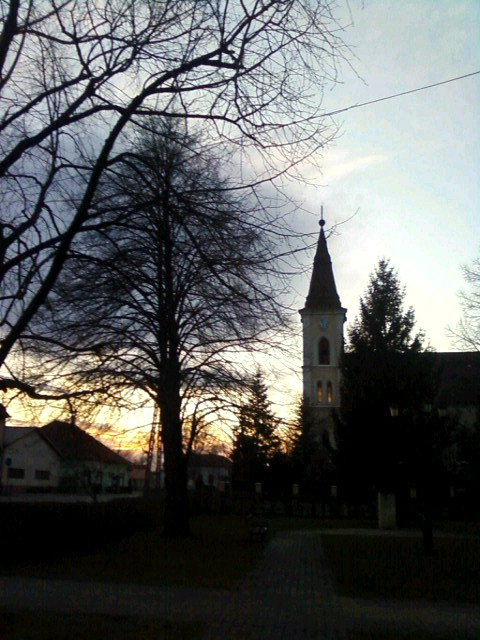 Church in my town which is one hundred years old this year.